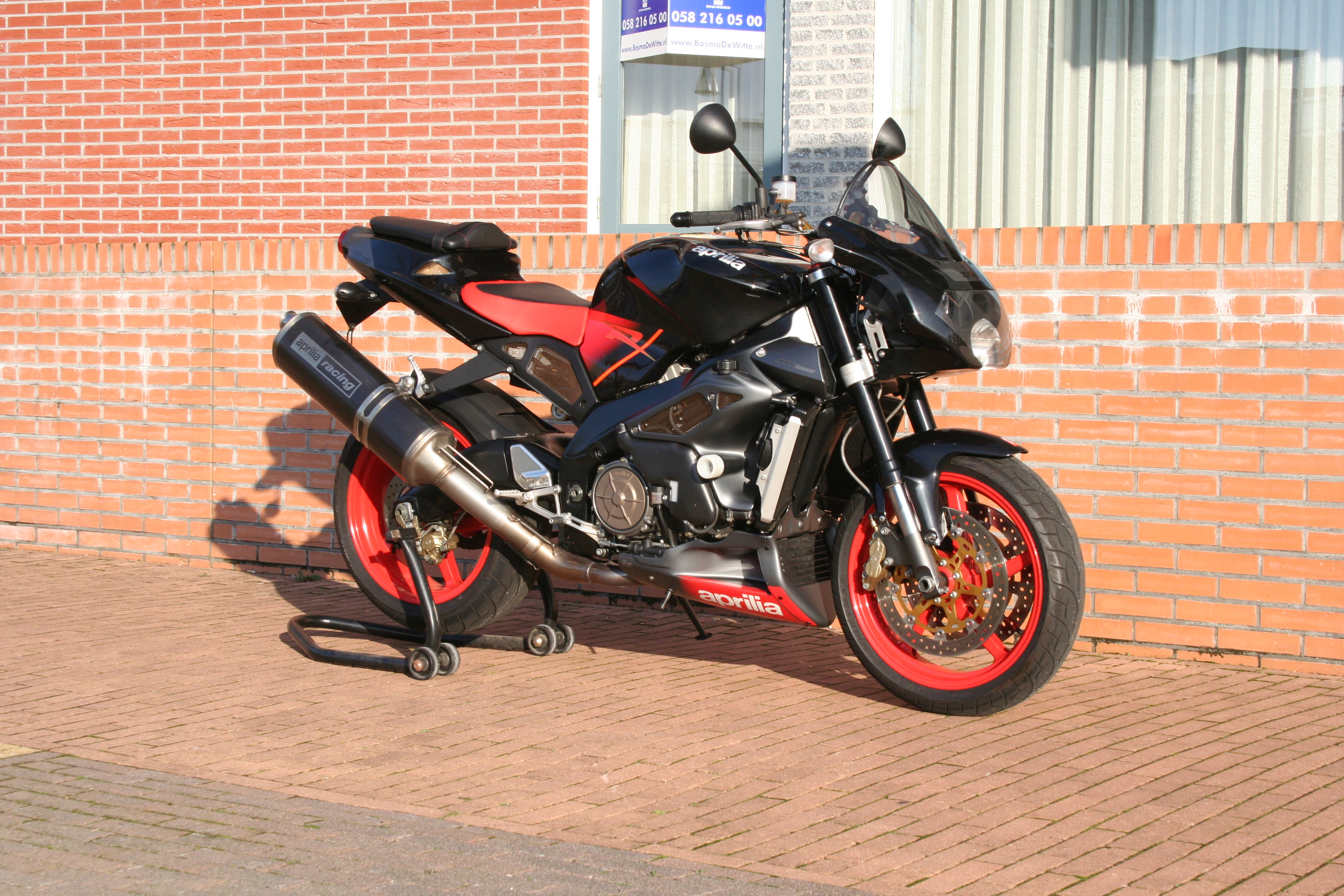 2004 Aprilia Tuono Fighter in "R"-Standard (non-Factory) paint scheme.